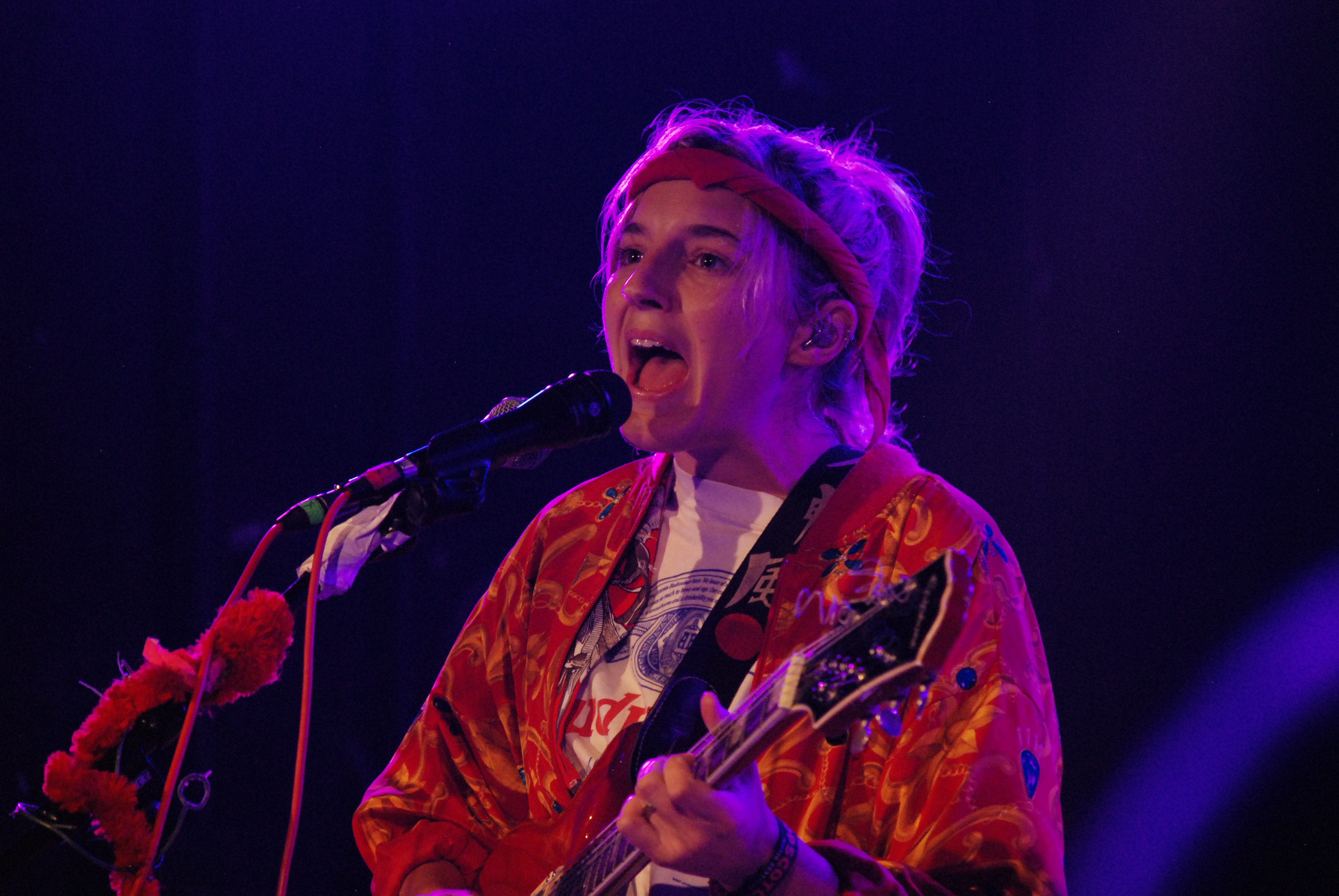 Caroline Rose playing guitar and singing